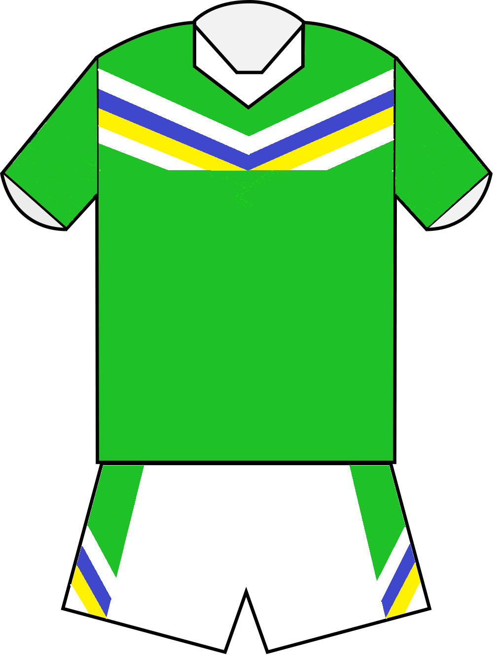 Canberra Raiders Home Jersey 2012